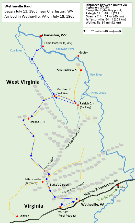 Map of route of Union Brigade from camp to Wytheville, Virginia. Raid took place during the American Civil War in July 1863. Map is not perfectly to scale, especially width of rivers. Map made using Microsoft Excel, and is based on a portion of an 1863 county map for Virginia and West Virginia created by William H. Gamble and S. Augustus Mitchell plus descriptions of the route from the July 27, 1863 report made by Major John J. Hoffman of the 2nd West Virginia Cavalry (participated in raid). Additional sources were Joseph J. Sutton’s History of the Second Regiment, West Virginia Cavalry Volunteers, During the War of the Rebellion (Sutton participated in the raid); John M. Johnson’s Lead, Salt, and the Railroad : Toland's Raid on Wytheville, July 18, 1863; and the reports of Lieutenant Colonel Freeman Franklin of the 34th Ohio Volunteer Infantry (participated in raid). Gamble and Mitchell’s entire map can be found in the Library of Congress Gamble-MitchellMap, and shows Virginia and West Virginia. Johnson's book has a hand-drawn map that uses current roads and only shows the Virginia portion.